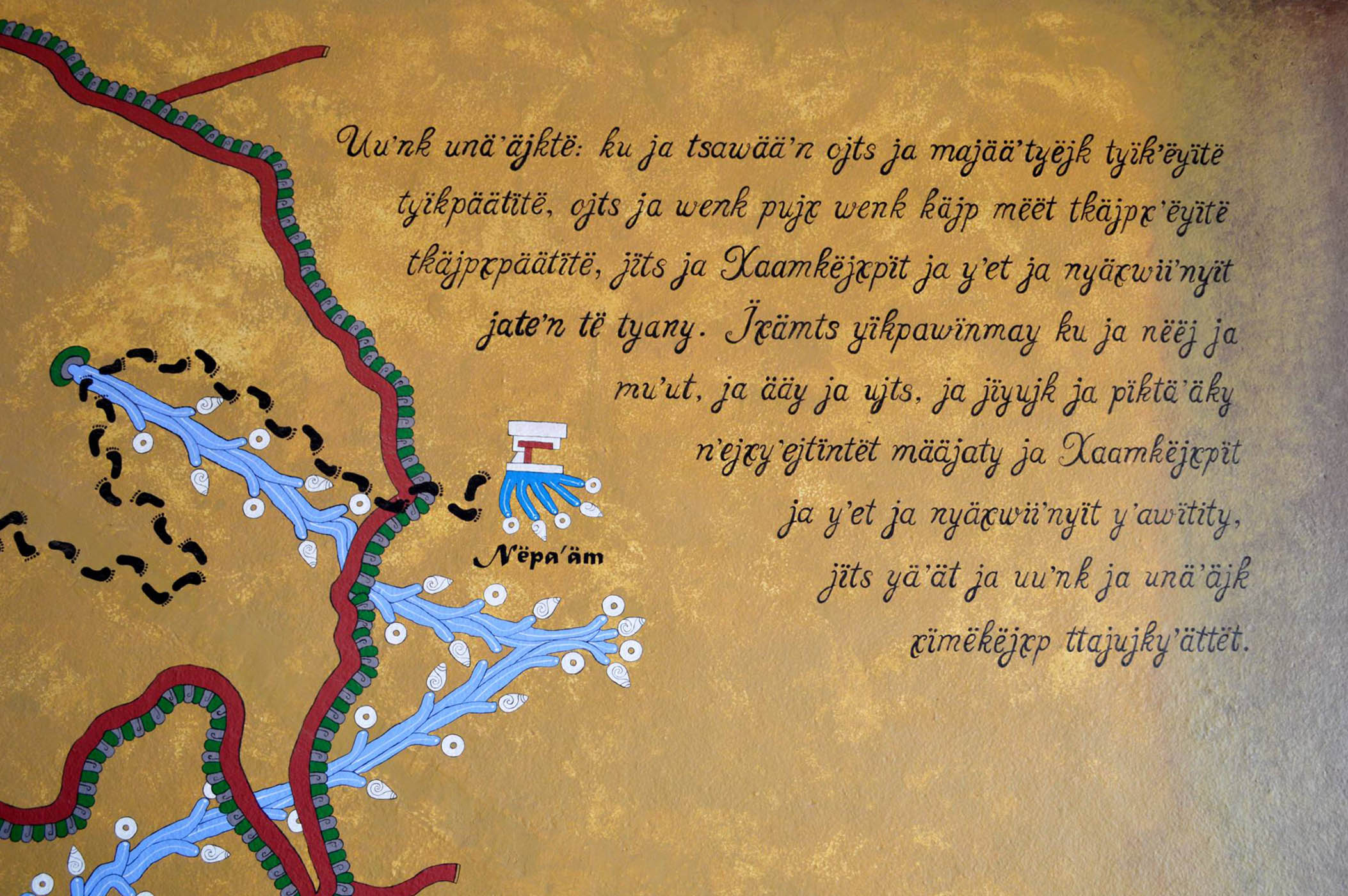 Mural work inside the municipal palace of Santa Maria Tlahuitoltepec, Oaxaca, author unknown